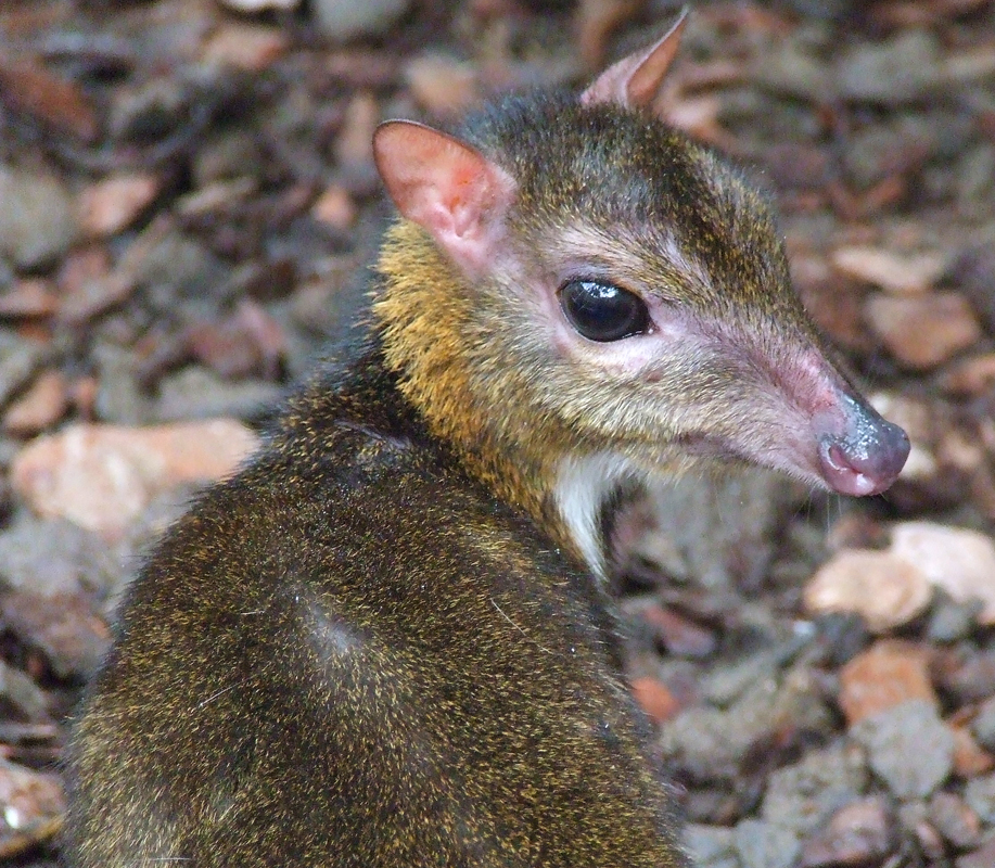 A Lesser Mouse Deer (Tragulus kanchil) in Fuengirola Zoo.